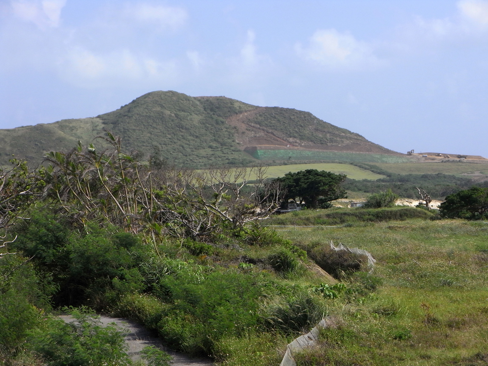 Karadake, Ishigaki, Okinawa, Japan